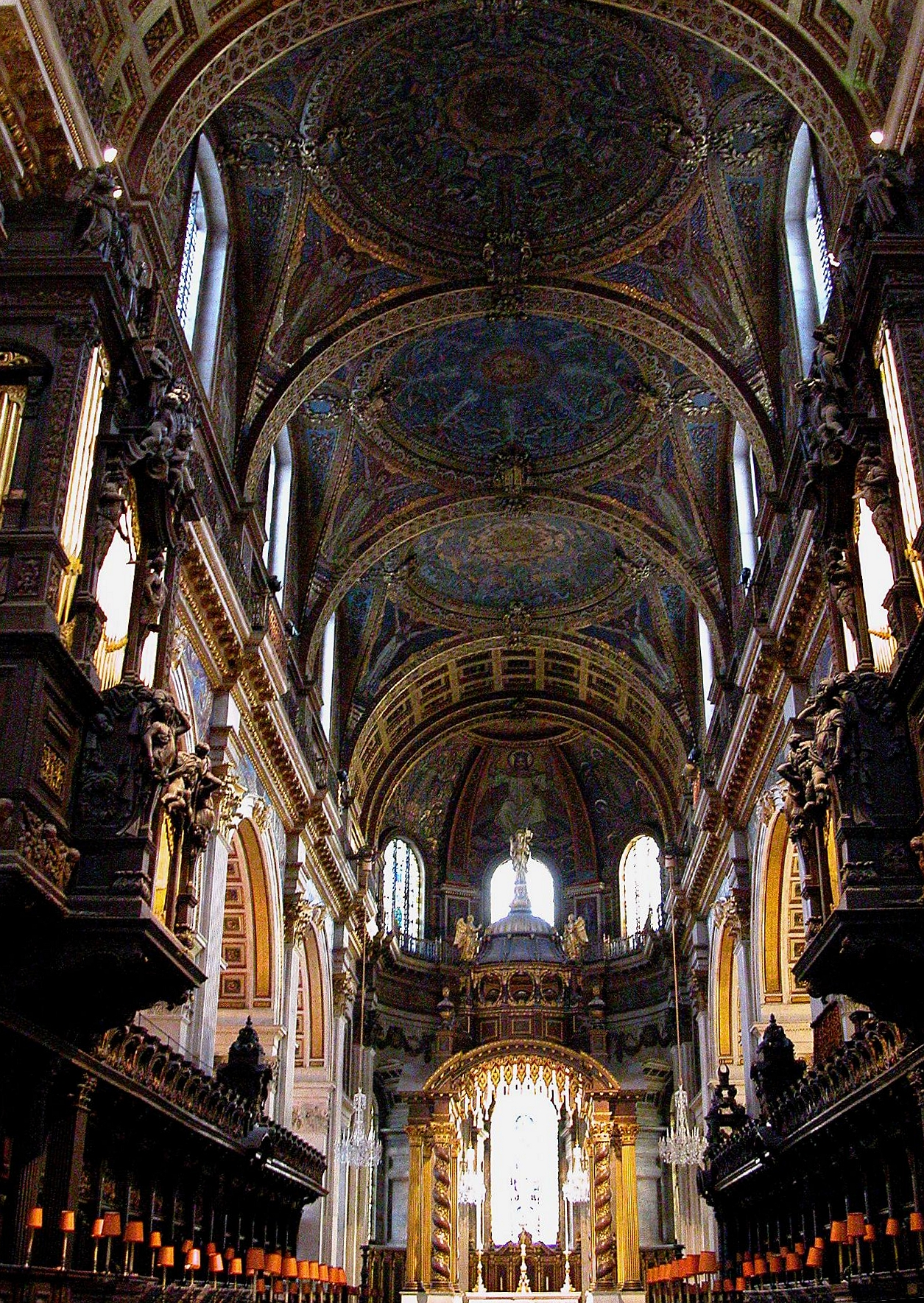 Photographer: Peter Morgan from Beijing, China Title: St Paul's Cathedral London Description: Pre-Christmas, December 20, 2004 Thomas Struth's interesting and famous photograph of the Milan Catherdral is available on-line. I think I subconciously registered Struth's 'Vegetable Market', and then took this picture in Shanghai . A good selection of Struth's work is viewable on-line at the Tate . I read that Struth is heavily influenced by Gerhard Richter . Taken on: 2004-12-20 17:21:31 Original source: - image description page